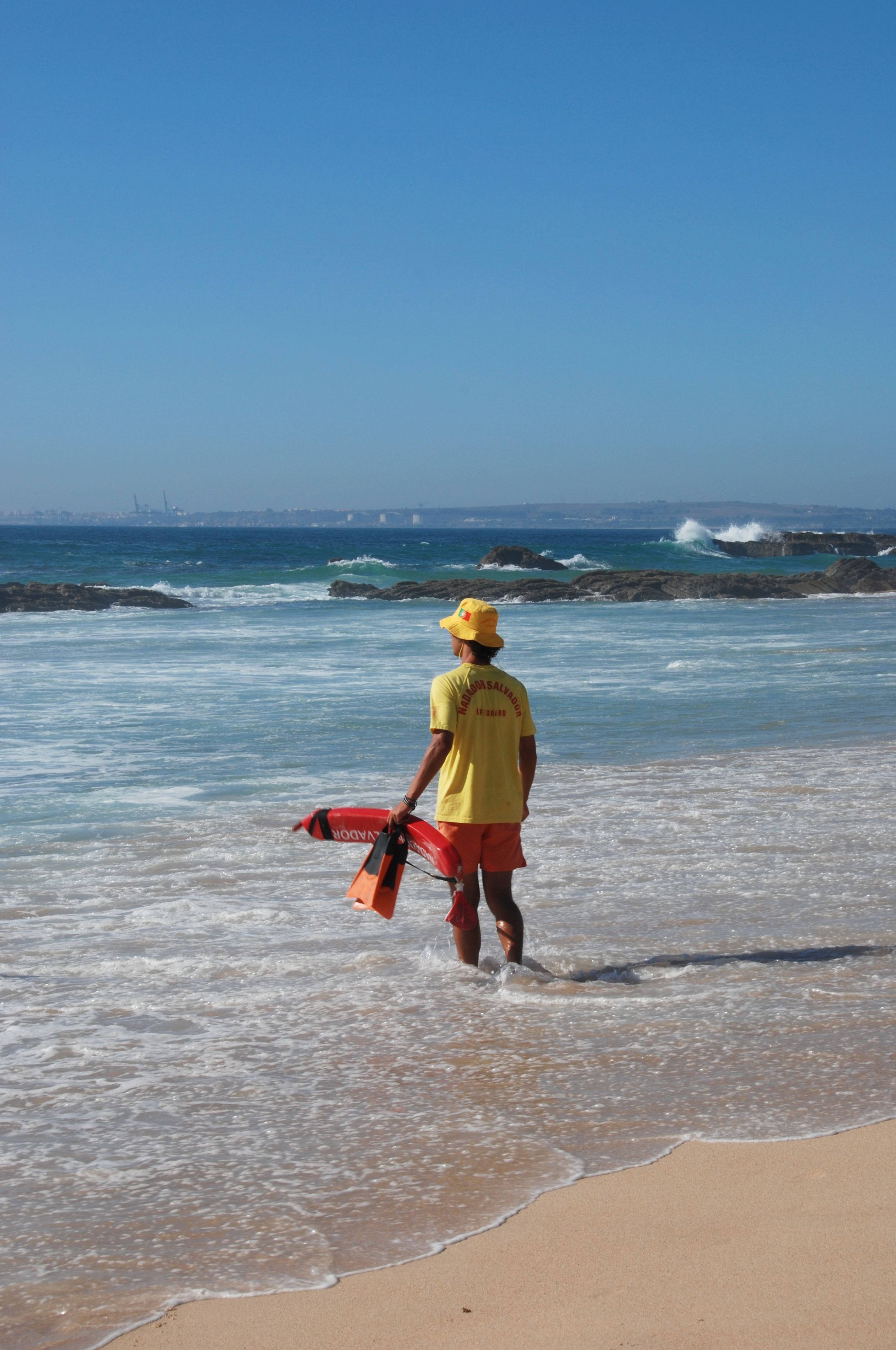 Lifeguard at the Praia Grande ('Large Beach'). Porto Covo, west coast of Portugal.